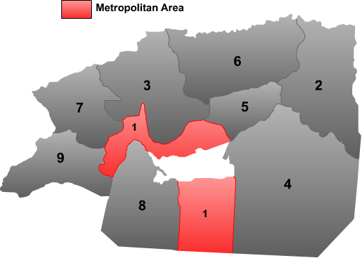 Map of Aksu prefecture in Xinjiang province